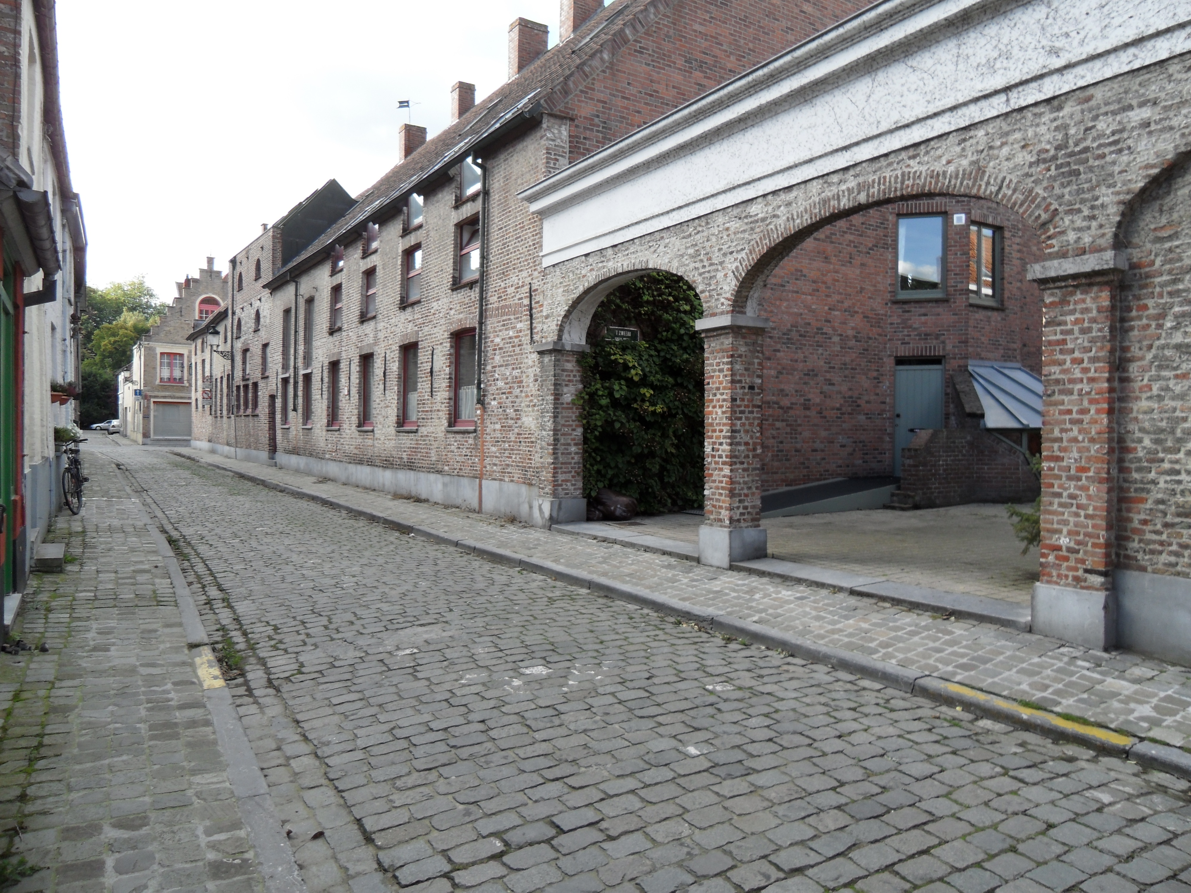 Engelstraat